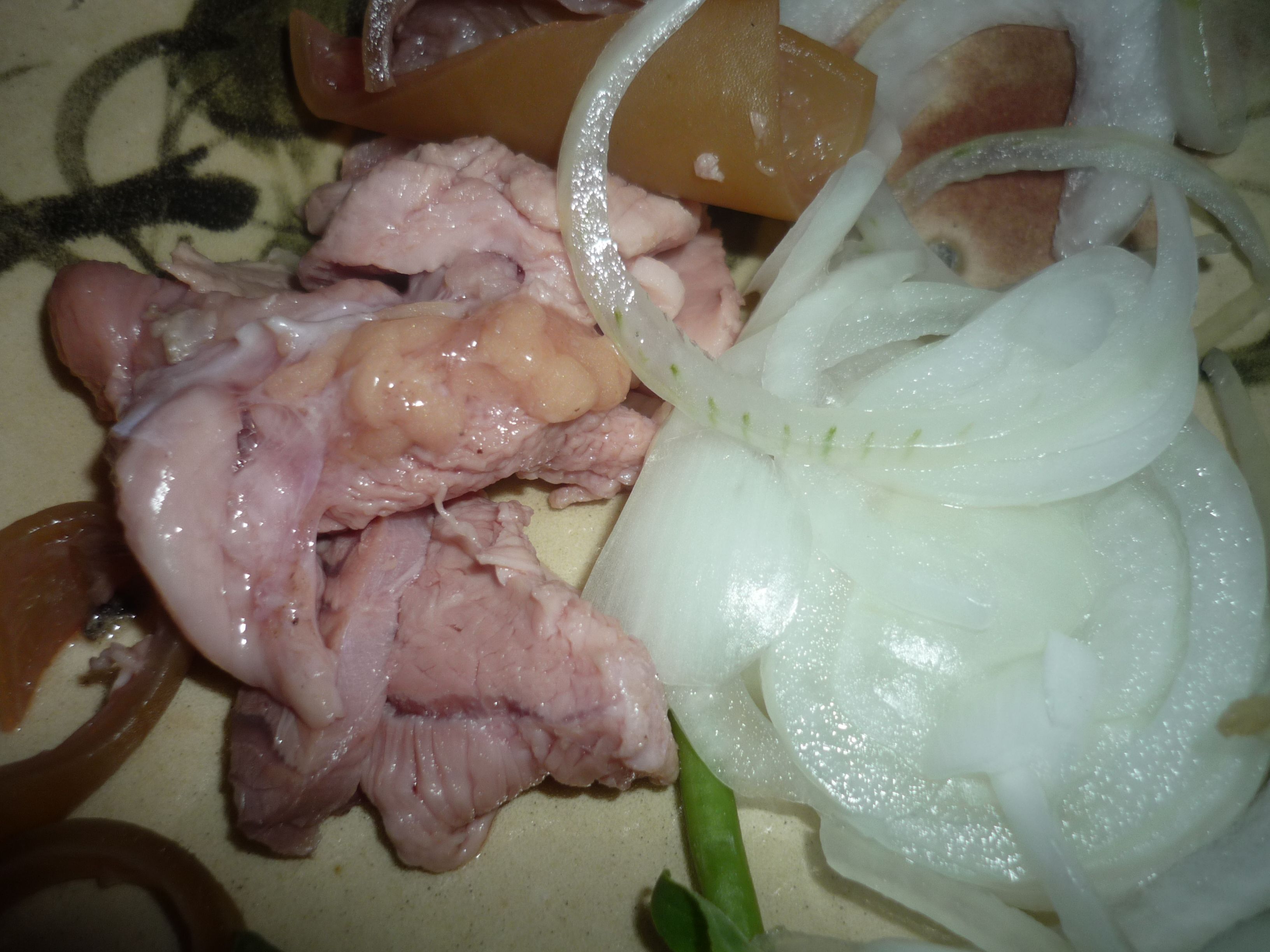 thinly sliced veal, which is marinated with salt and pepper and seared